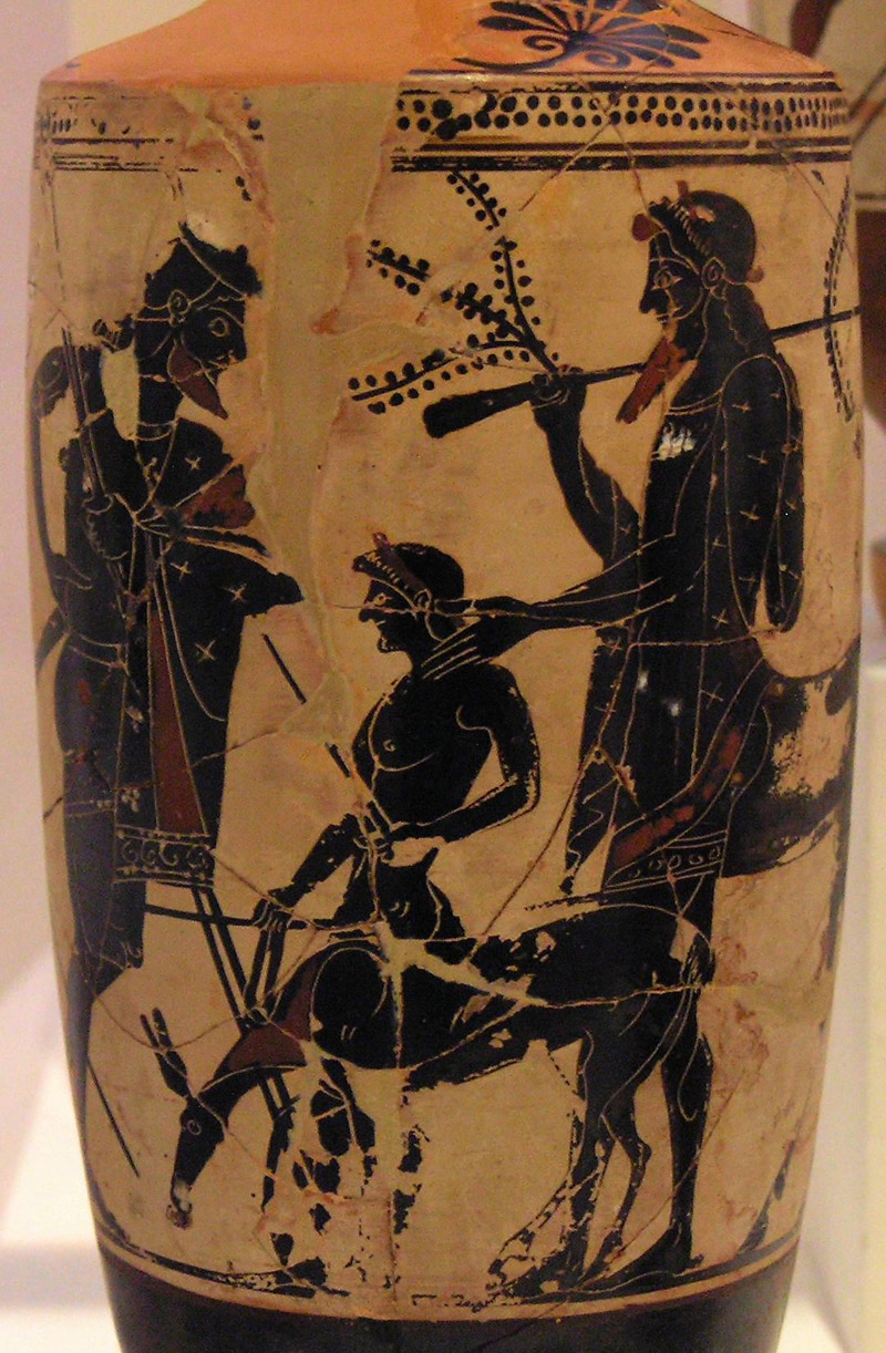 Peleus (left) entrusts his son Achilles (centre) to Centaur Chiron (right). White-ground black-figured lekythos by the Edinburgh Painter, ca. 500 BC. From Eretria. National Archaeological Museum in Athens, 1150.